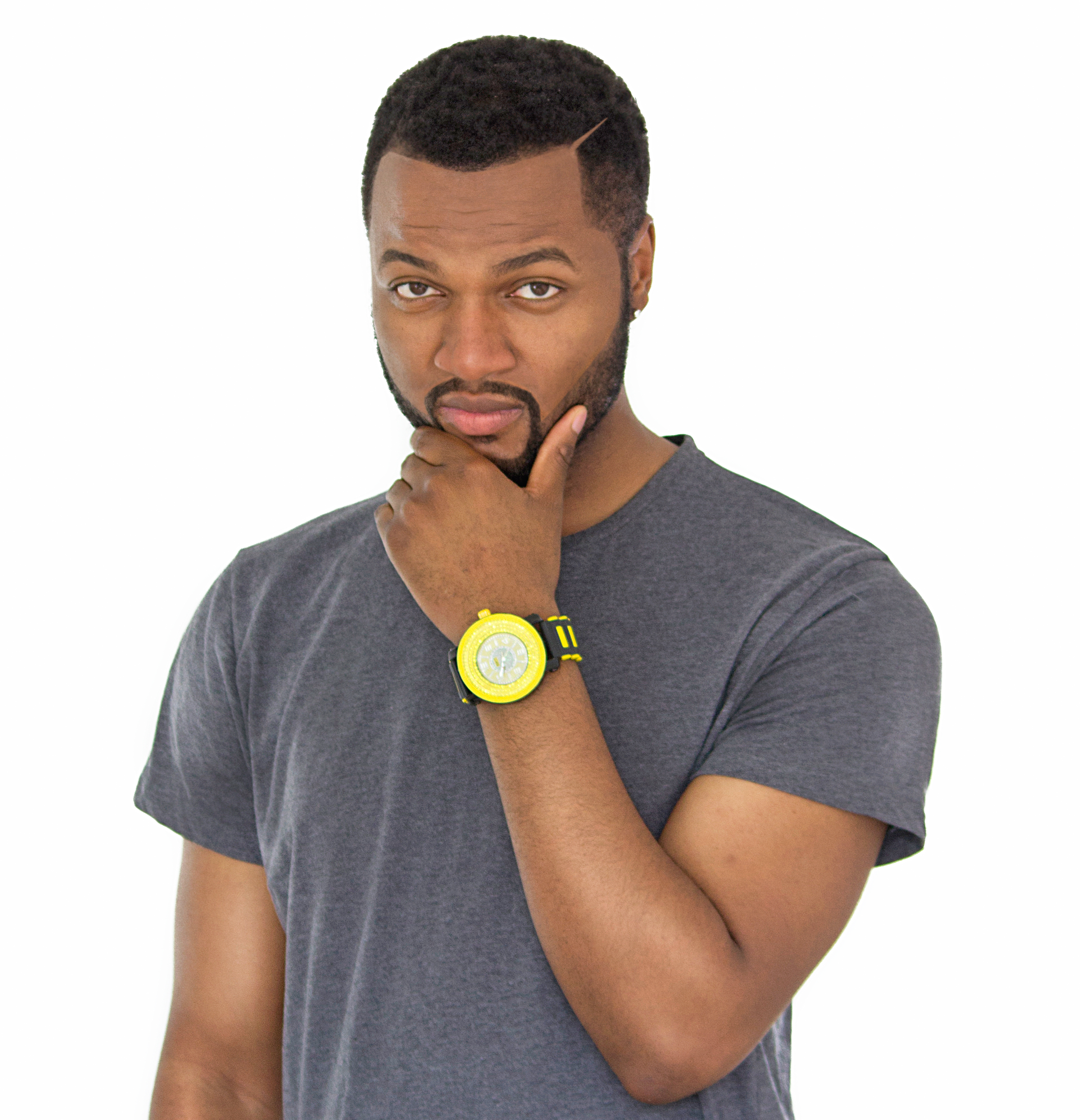 Bigg masta g (Muana Mboka)